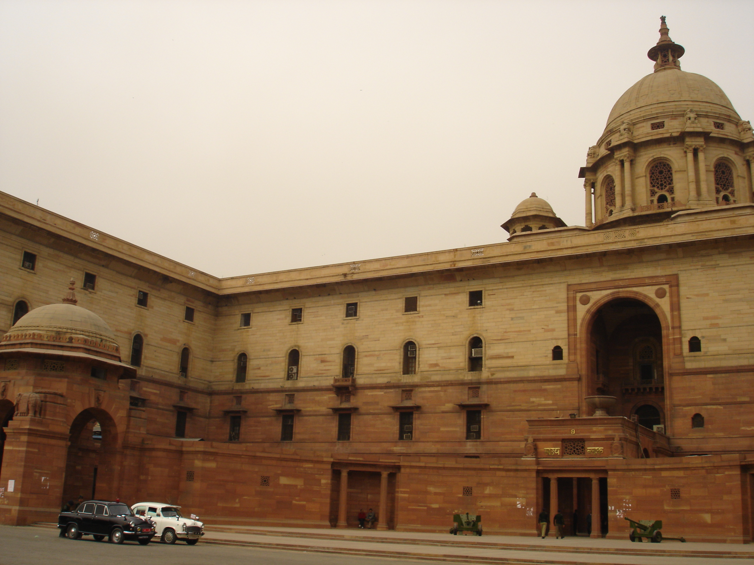 The Rashtrapati Bhavan